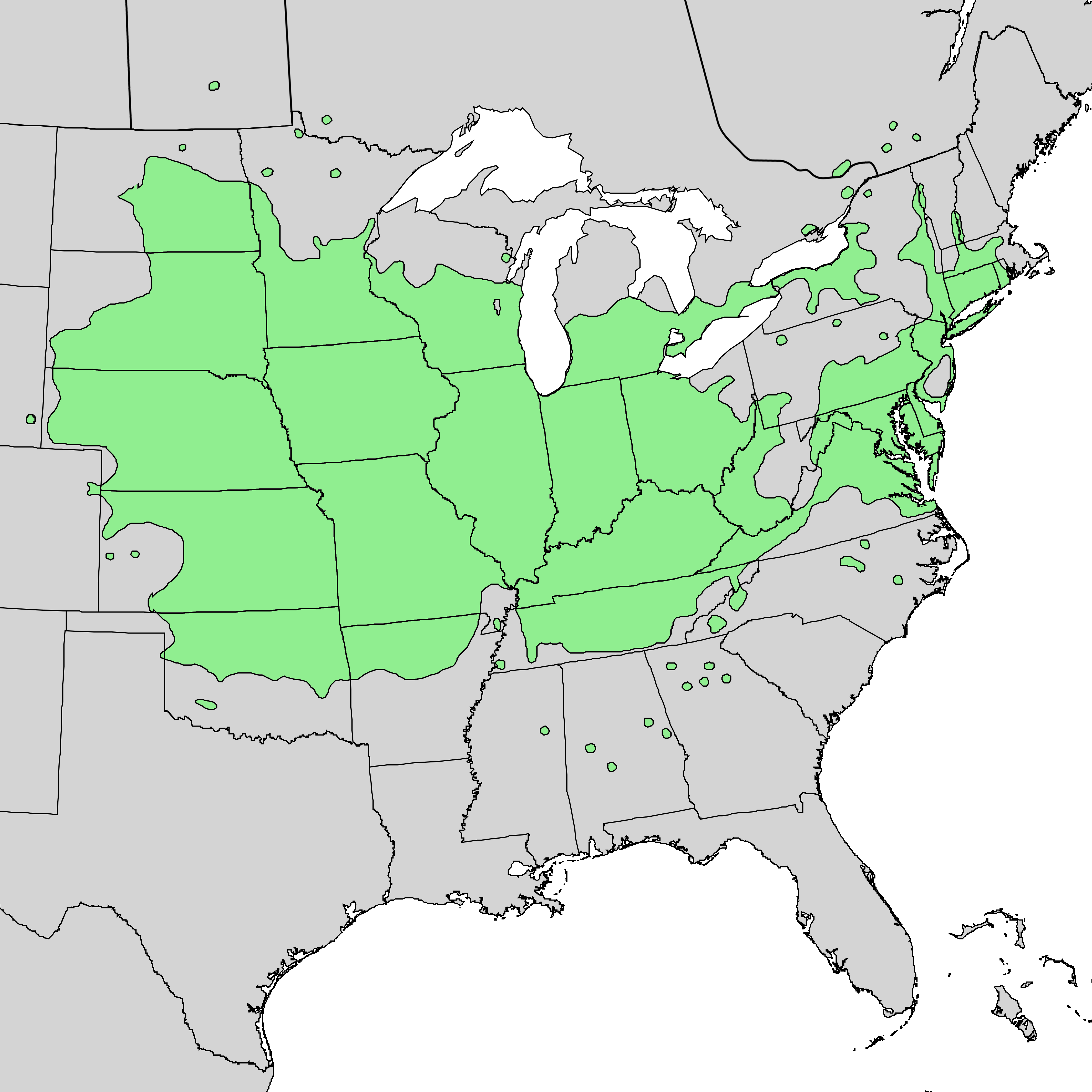 Natural distribution map for Celtis occidentalis (northern hackberry)